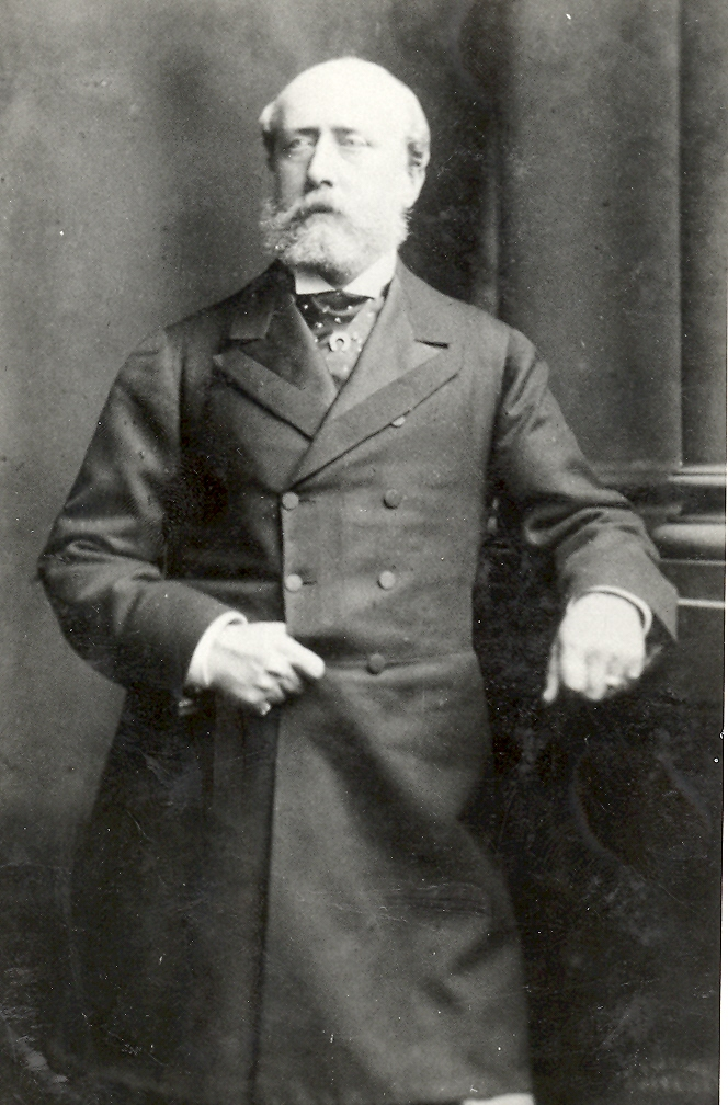 uncopyrighted source: royalguide.nl